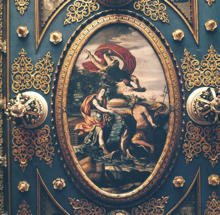 Izaak van den Blocke. "Zaślubiny Neptuna z Cererą", 1608, olej na desce, Sala Czerwona, Ratusz Główny, Gdańsk